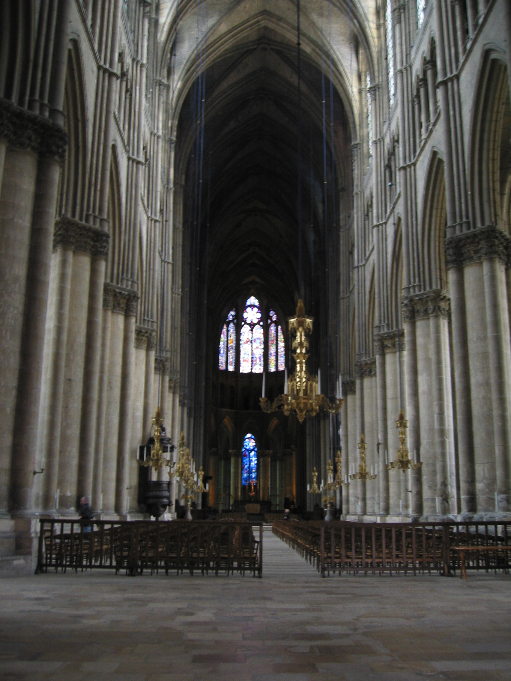 Cathedral in Reims, France.